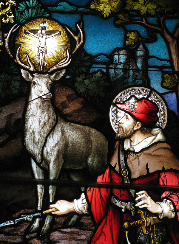 St.Hubertus. Stained glass window in St.Patrick Basilica. Ottawa. Author: Mayer Co of Munich 1898